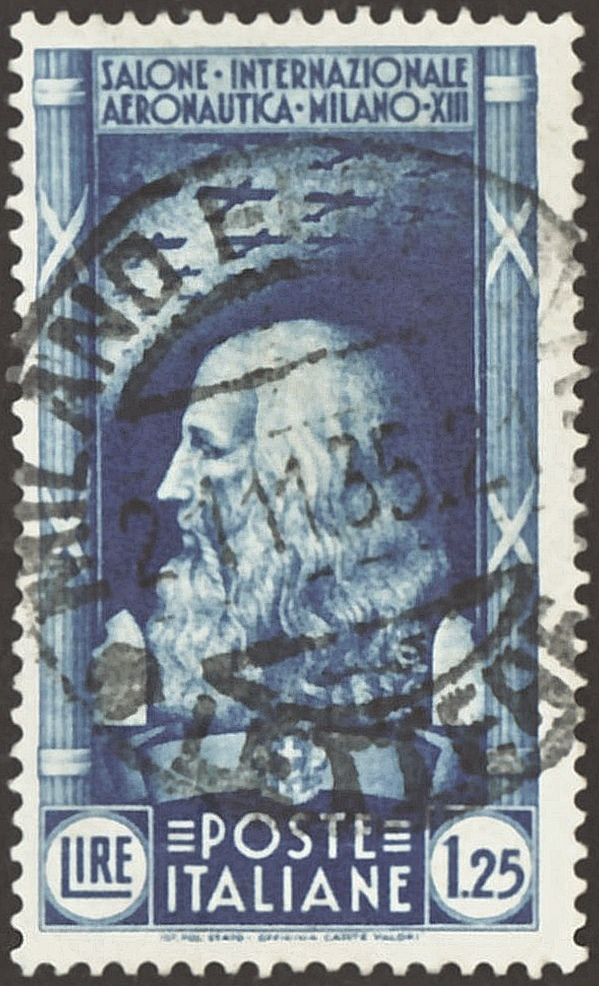 Stamp of the Kingdom of Italy; 1935; commemmorative stamp to the "1st International Aeronautical Salon " held in 1935 in Milan; drawing of a portrait of Leonardo da Vinci under sky with airplanes; two-lines inscription in the upper central area: "SALONE * INTERNAZIONALE / AERONAUTICA * MILANO * XIII" (=Italian for "!st International Aeronautical Salon, Milan, 13" (= the year 13 of the Fascist era) (The Aeronautica Salon in Milan was the then Italian parallel event to the Salon aeronautique in Paris.); drawing with two Fascist "Fascio" as side ornaments; postmarked in Milano (Region Lombardy), 1935 Stamp: Michel: No. 531; Yvert & Tellier: No. 367; Scott: 348 Color: azure to blue Watermark: Italy No. 1 (crown) Nominal value: 1.25 Lire (₤) Postage validity: from 1 October 1935 until 30 September 1936 date QS:P,+1935-00-00T00:00:00Z/8,P580,+1935-10-01T00:00:00Z/11,P582,+1936-09-30T00:00:00Z/11 Stamp picture size (printed area without below names line): 21.0 x 37.0 mm Postmark: Milan (Italian name: "Milano", Region Lombardy), 21 November 1935